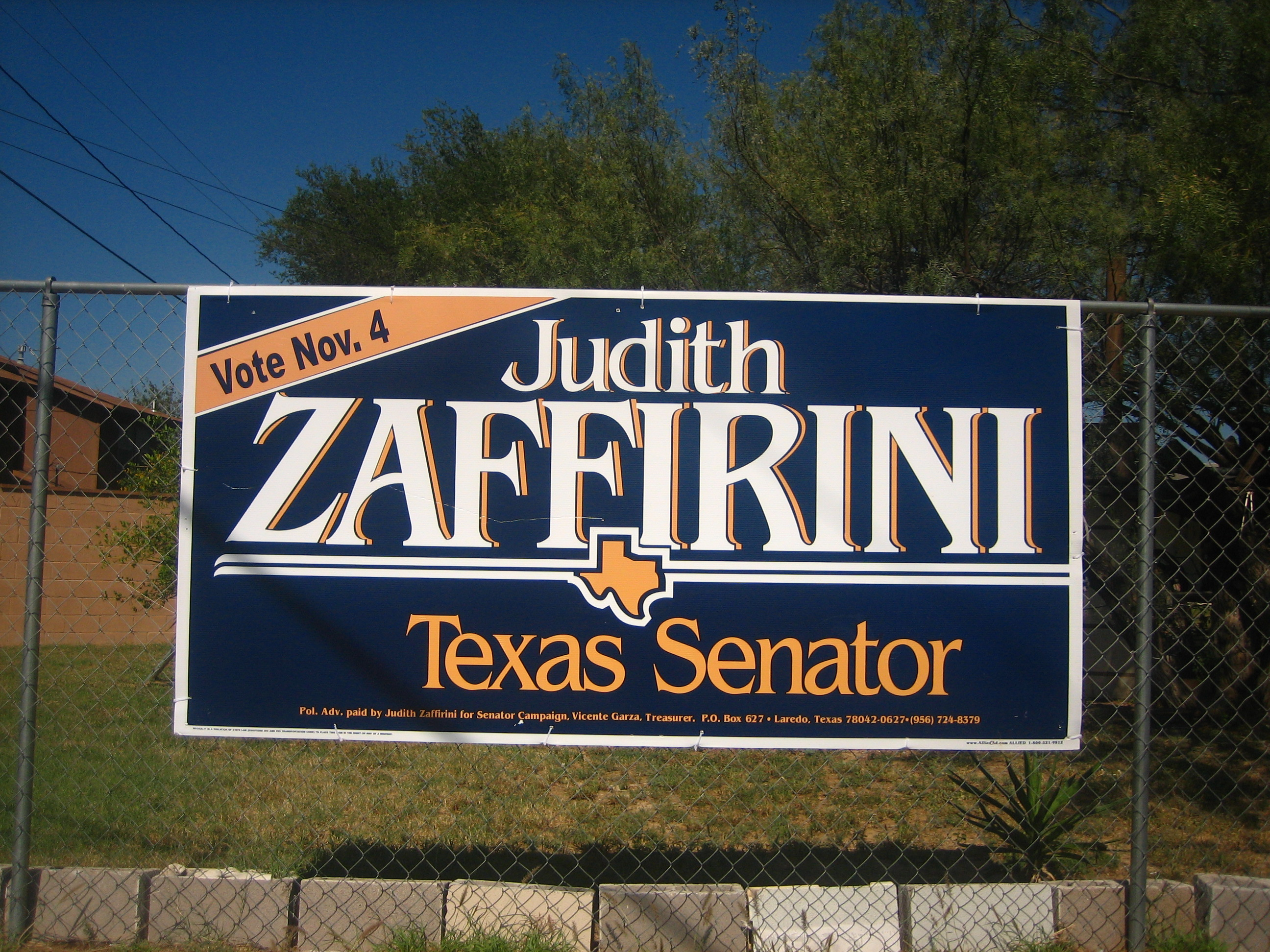 I took photo on Oct. 22, 2008.Billy Hathorn (talk) 21:48, 22 October 2008 (UTC)